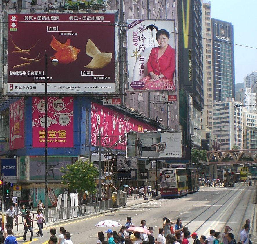 銅鑼灣zh:怡和街